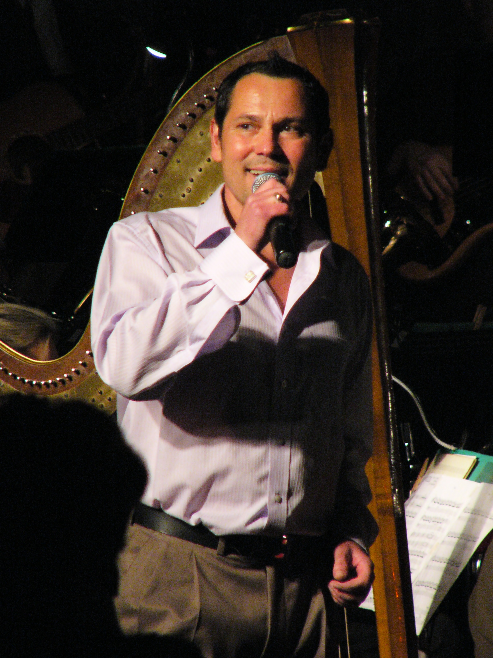 Czech singer Pavel Vítek in the concert in Olomouc (The Czech Republic).